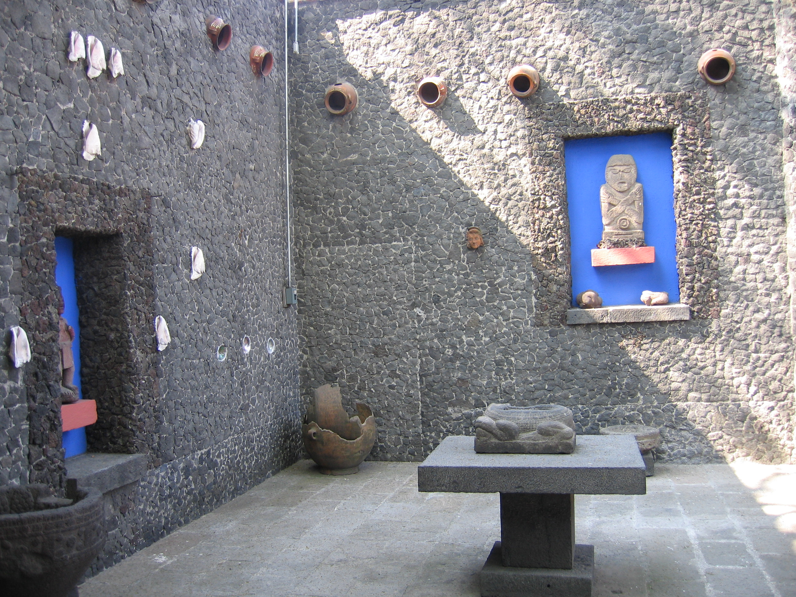 Picture from Frida Kahlos house - The Blue House.